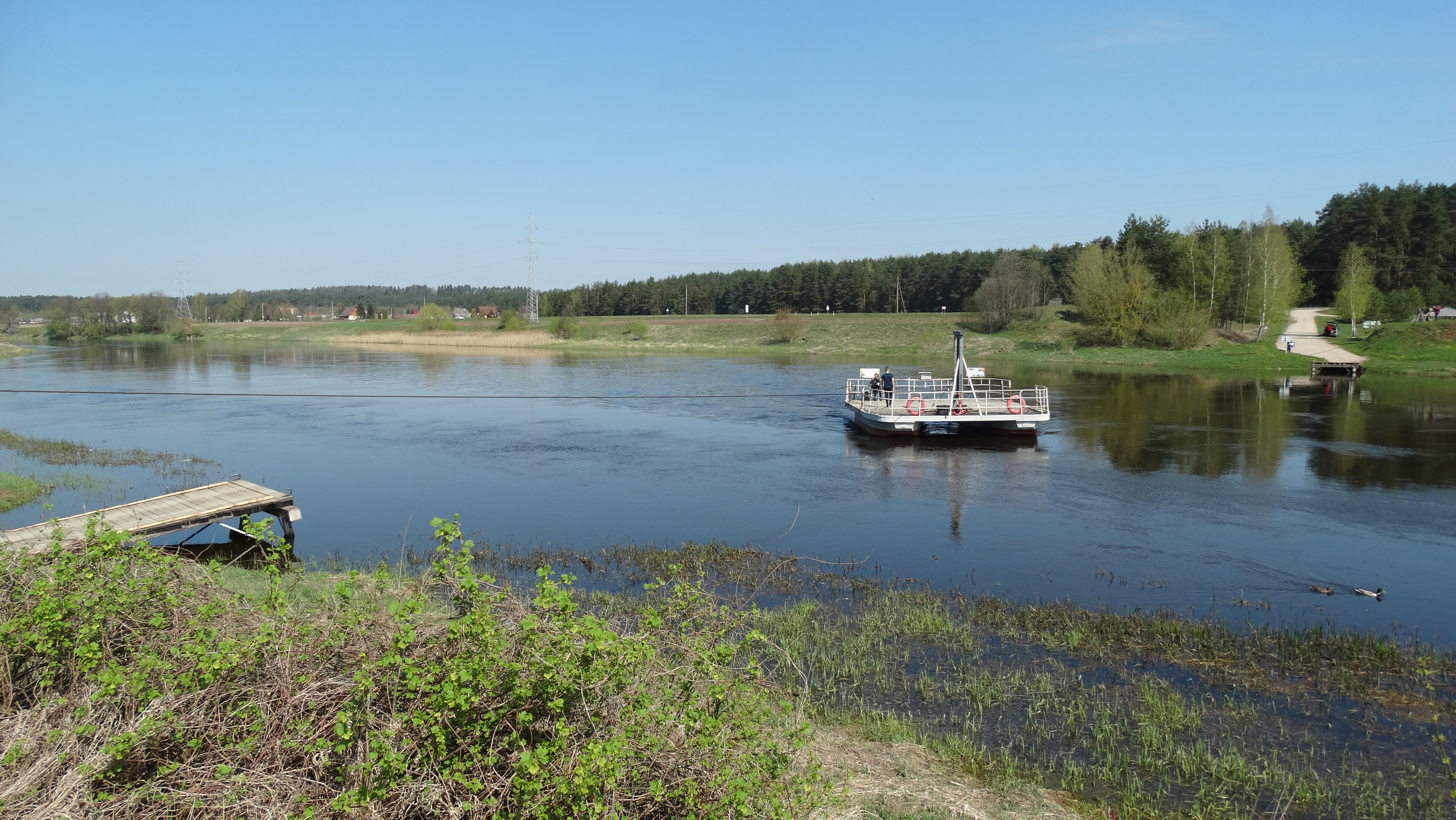 Neris River ferry, Padaliai side, Kaišiadorys district, Lithuania